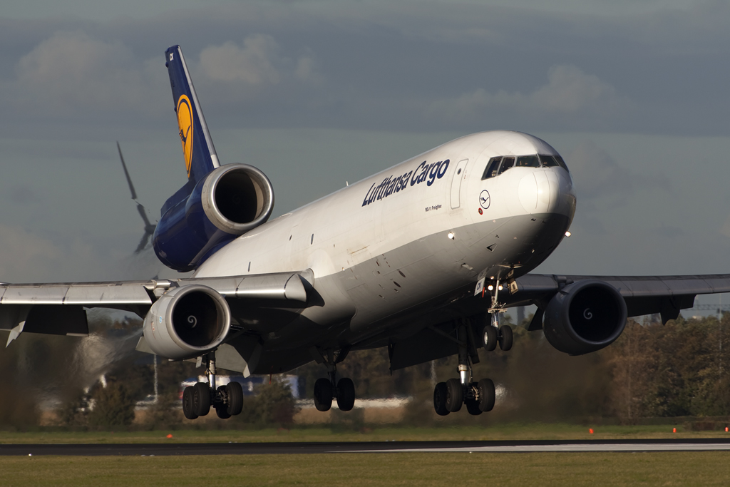 Schiphol polderbaan